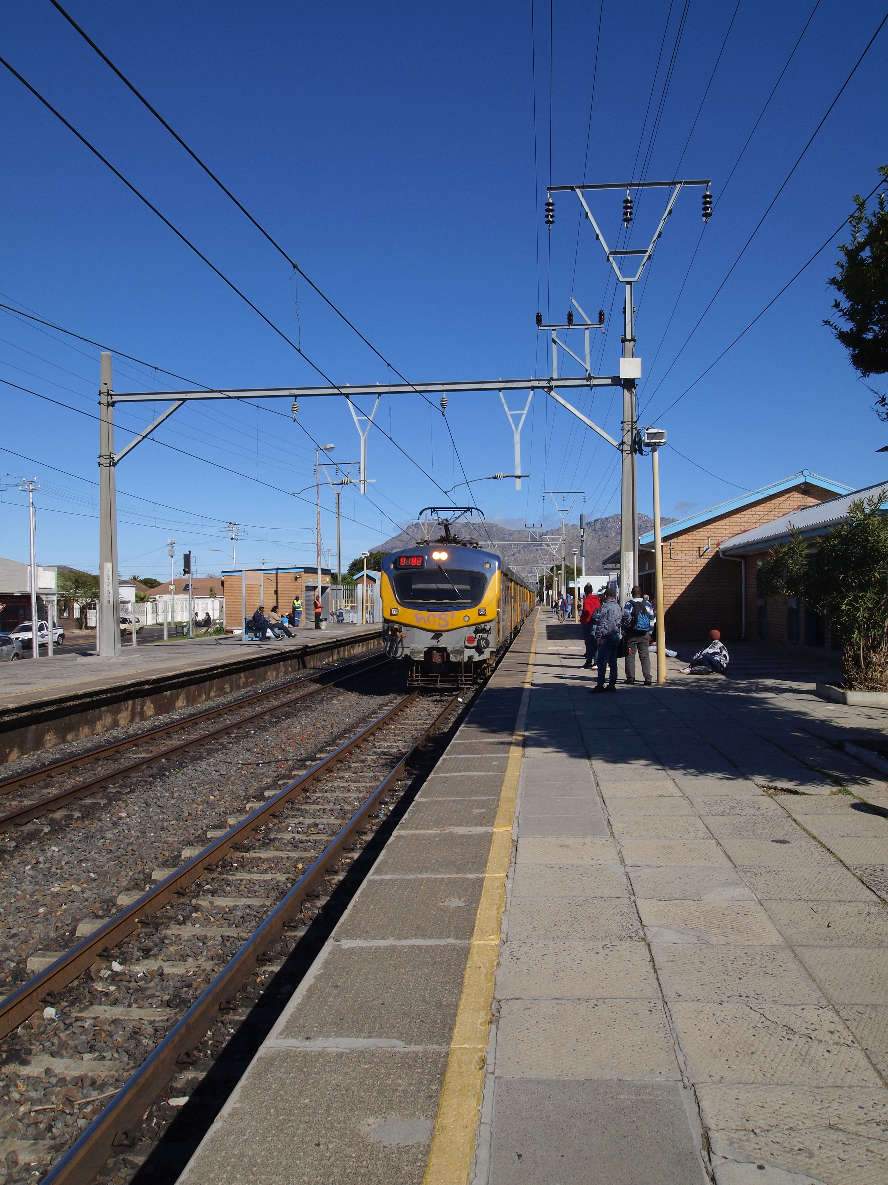 Train entering Heathfield station (Bergvliet, Cape Town).